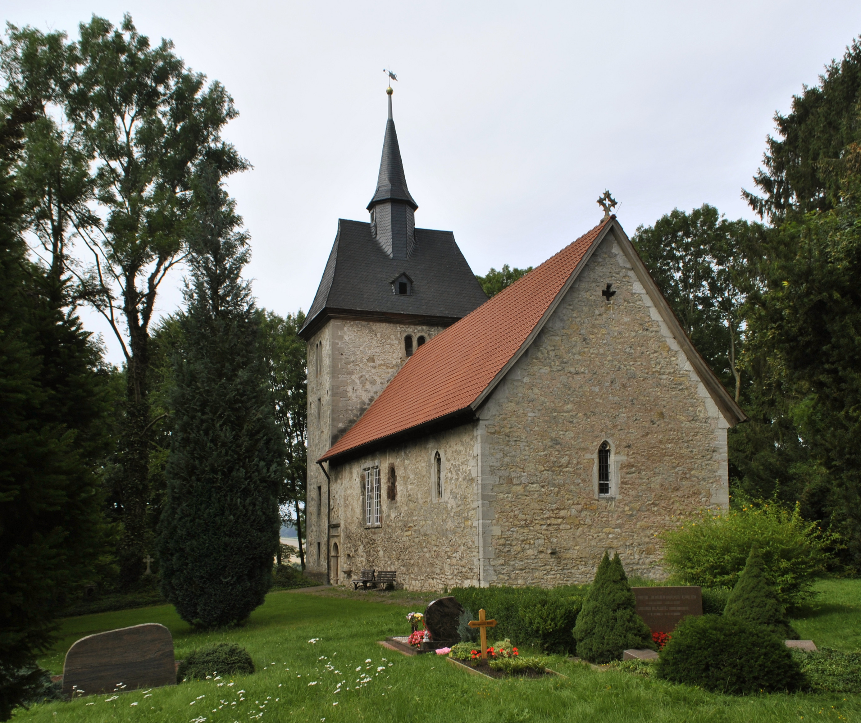 Weissenwasserkirche is a 12th-century rubble church near Kalefeld, Lower Saxony. It was formerly the parish church of the now-abandoned village of Weissenwasser.